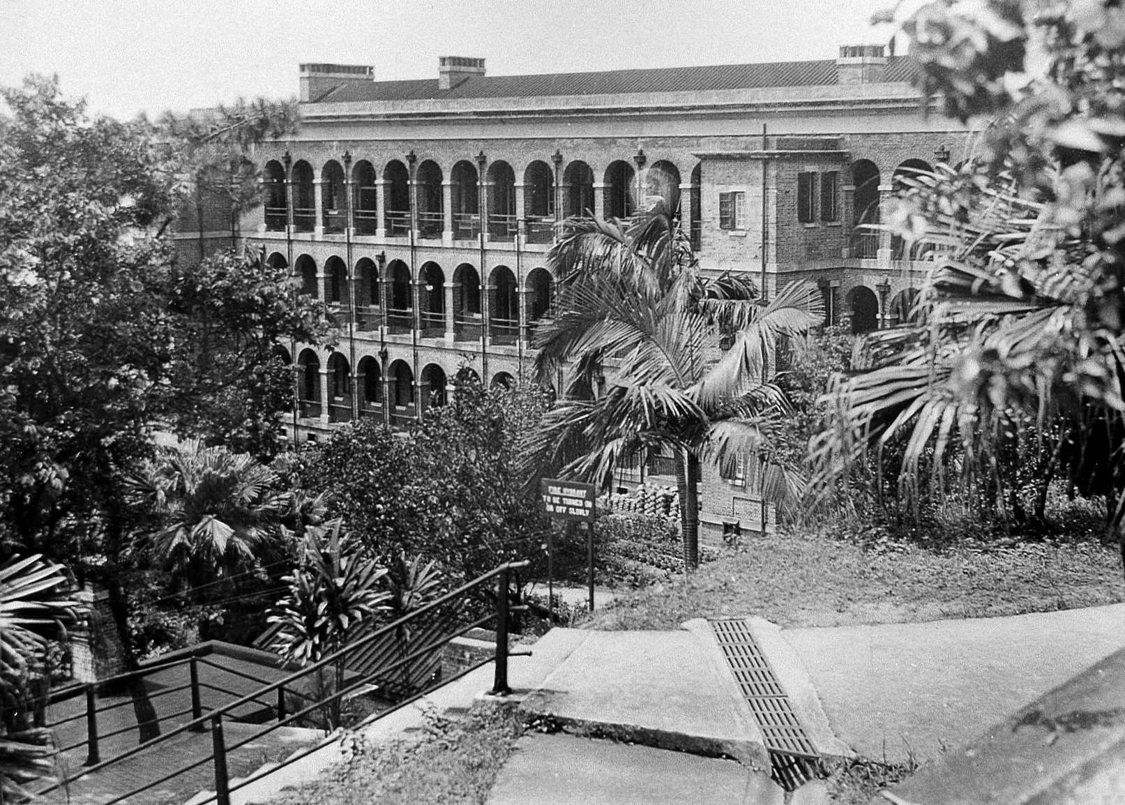 British Military Hospital, Bowen Road, Hong Kong, west wing Archives & Manuscripts Keywords: MILITARY; Military Personnel